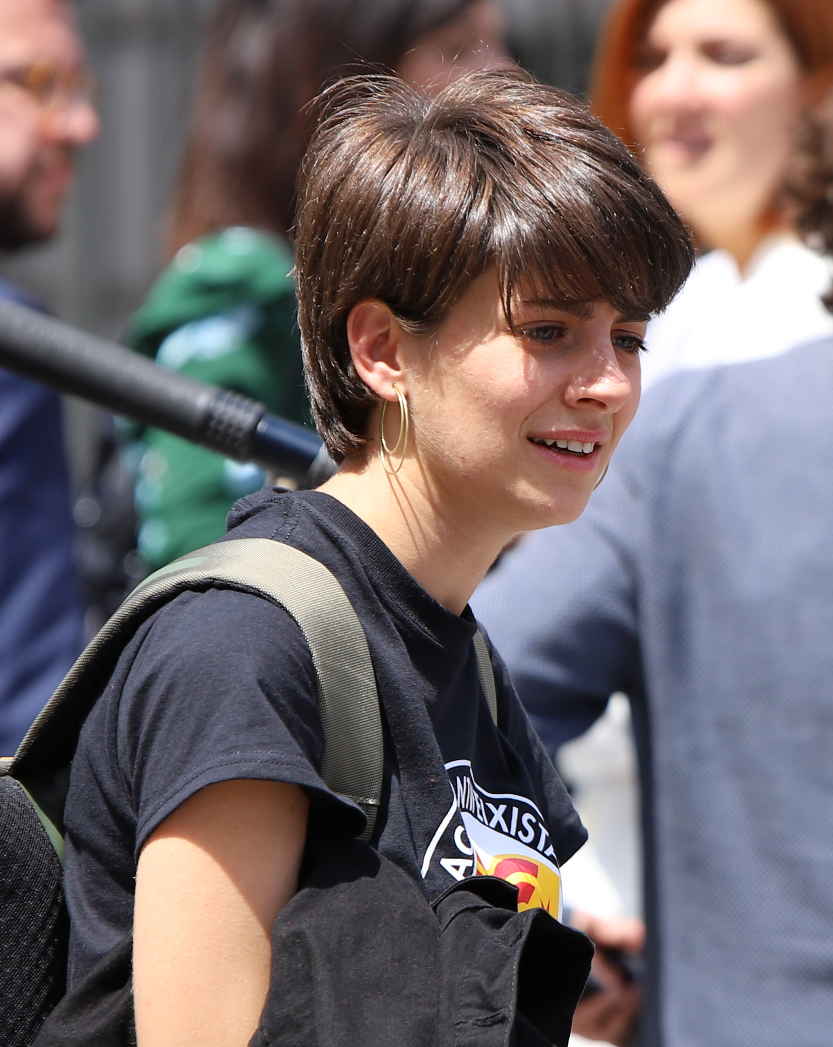 The Spanish politician Marta Rosique leaves the Parliament building after the first session of the newly elected Congress.